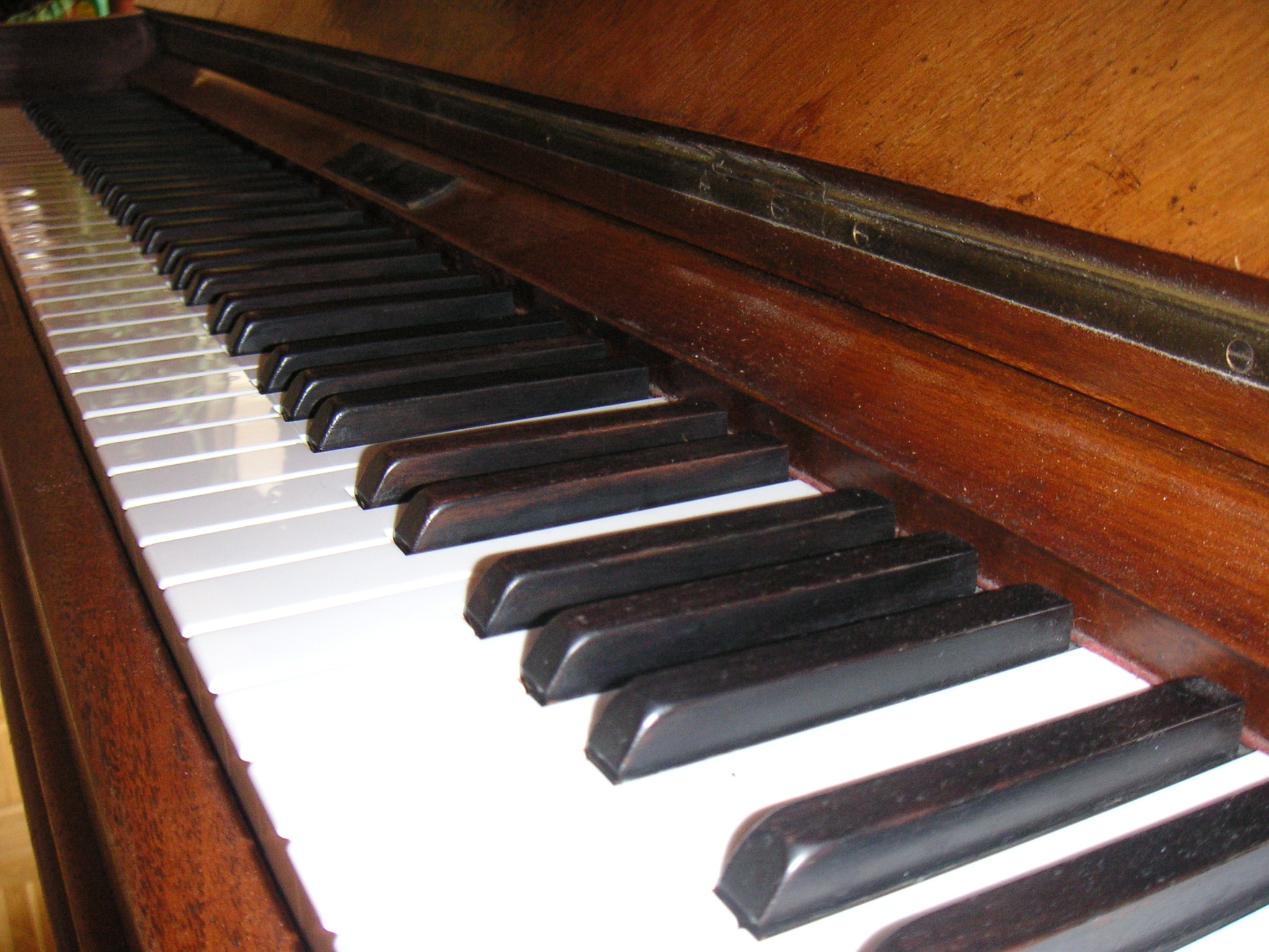 Piano, keys